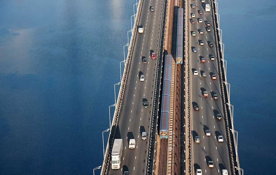 Pivdennyi (Southern) Bridge in Kiev